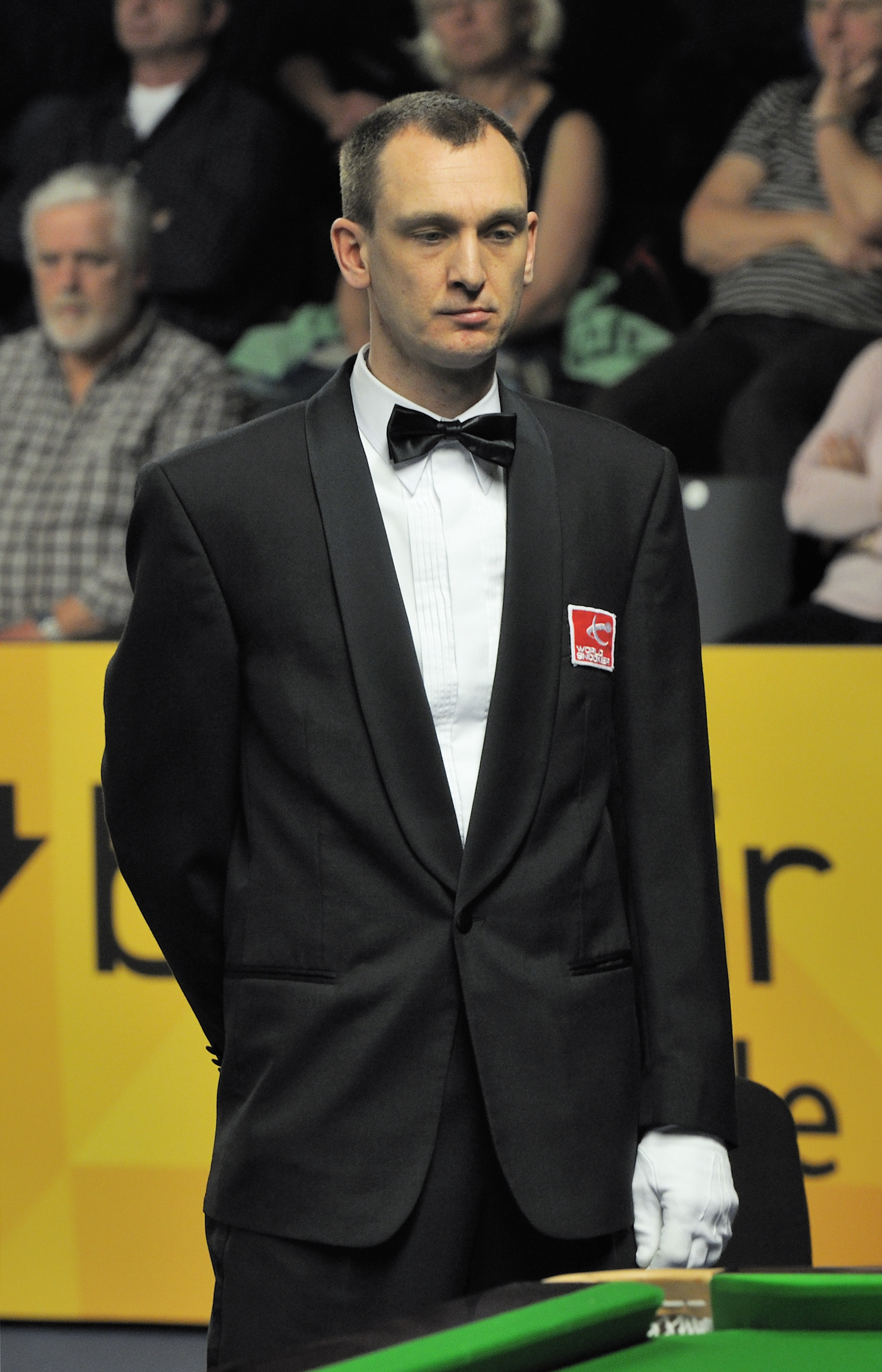 Picture taken in Berlin during the Snooker German Masters in 2013. Jurgen Gruson.